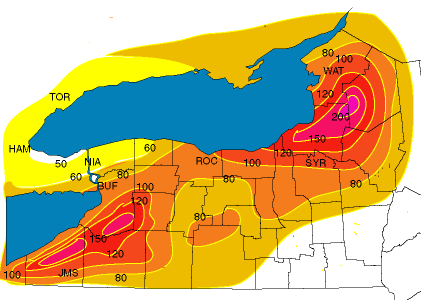 This figure shows the average annual snowfall which falls within the lake effect snowbelts within western New York state